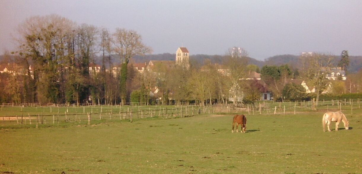 Forges les Bains, Essonne, France, view from the south to the north of the village